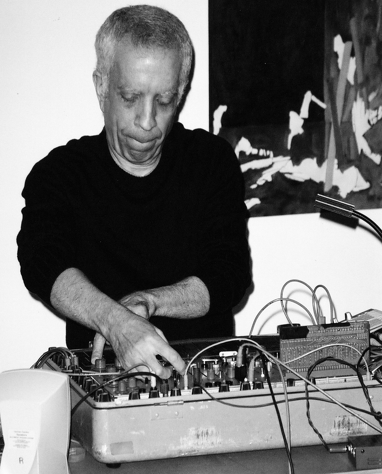 Photograph of Charles Cohen.